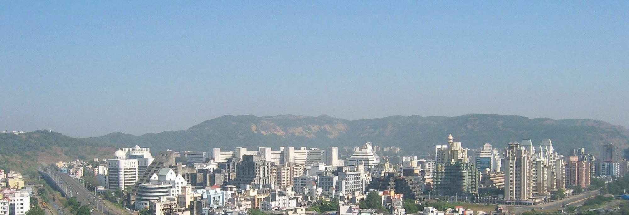 View of CBD Belapur